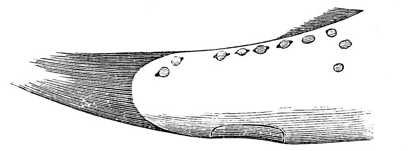 Caudal_extrimity of Scopelus humboldtii (=Maurolicus muelleri) with glass pearly organs